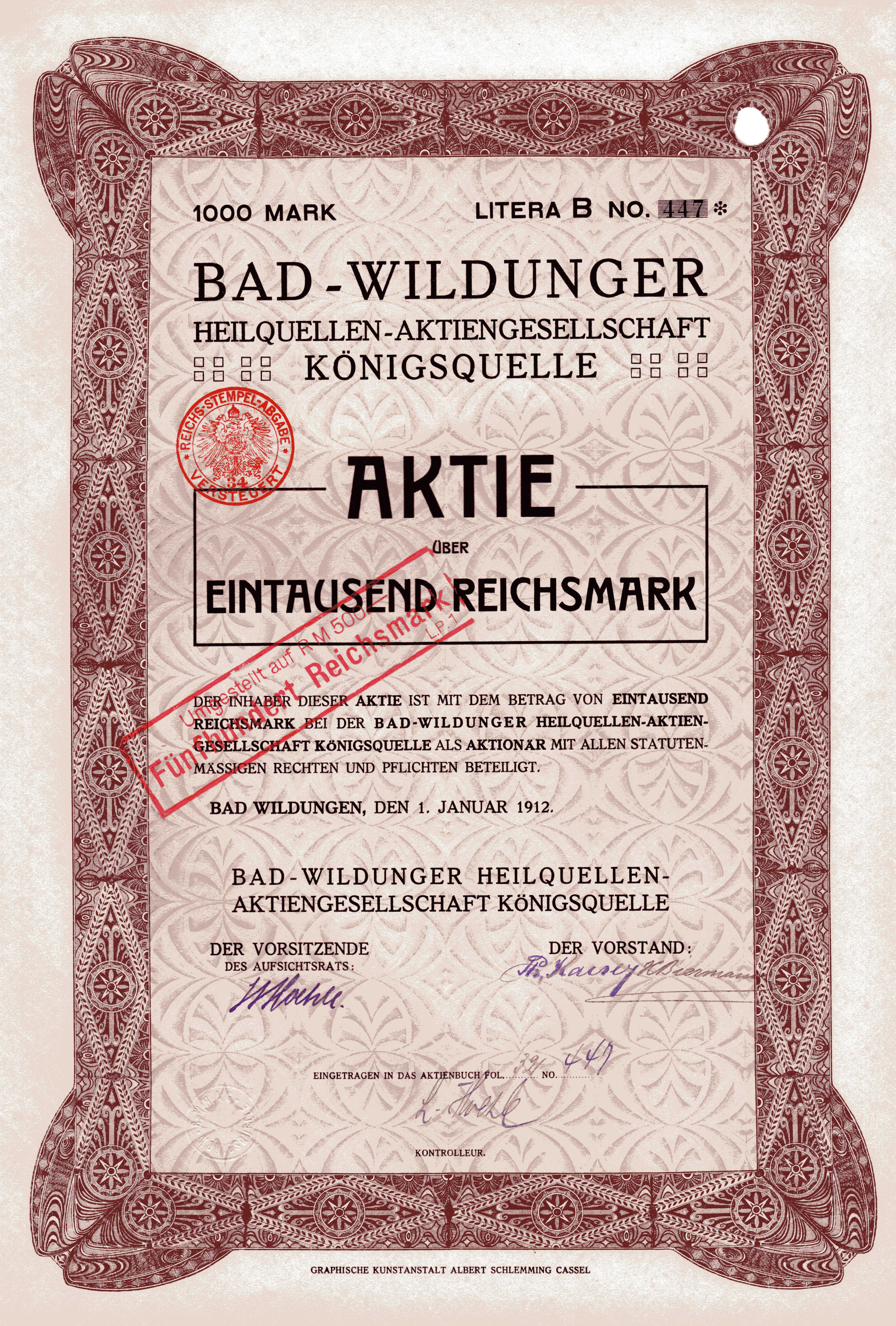 Share of the "Bad Wildunger Heilquellen AG - Königsquelle", issued 1. January 1912